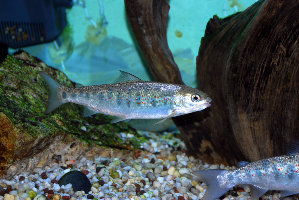 This individual shows fading vertical parr marks, a characteristic of the parr stage, gradually taking on the silvery sheen of the smolt stage in advance of migrating to the North Atlantic Ocean to feed. Credit: E. Peter Steenstra/USFWS